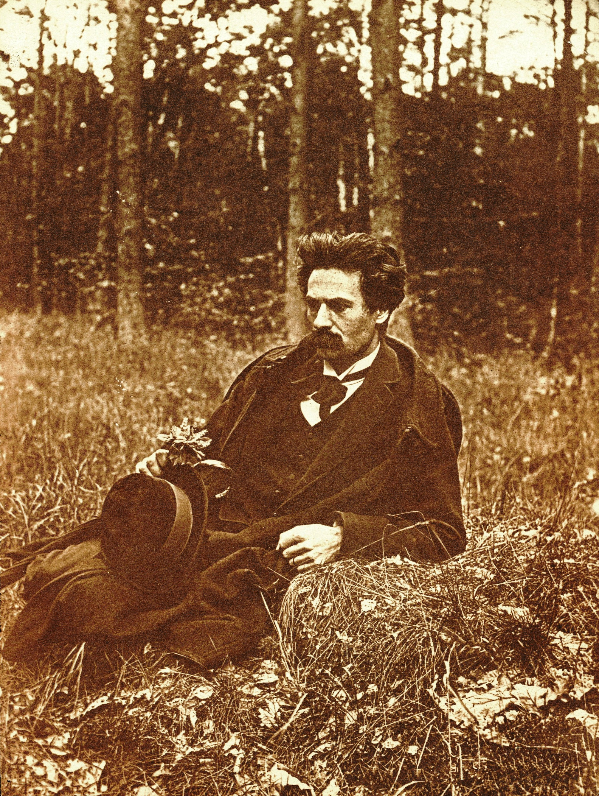 Self-portrait photo of the German composer Robert Ebel (1874-1930)